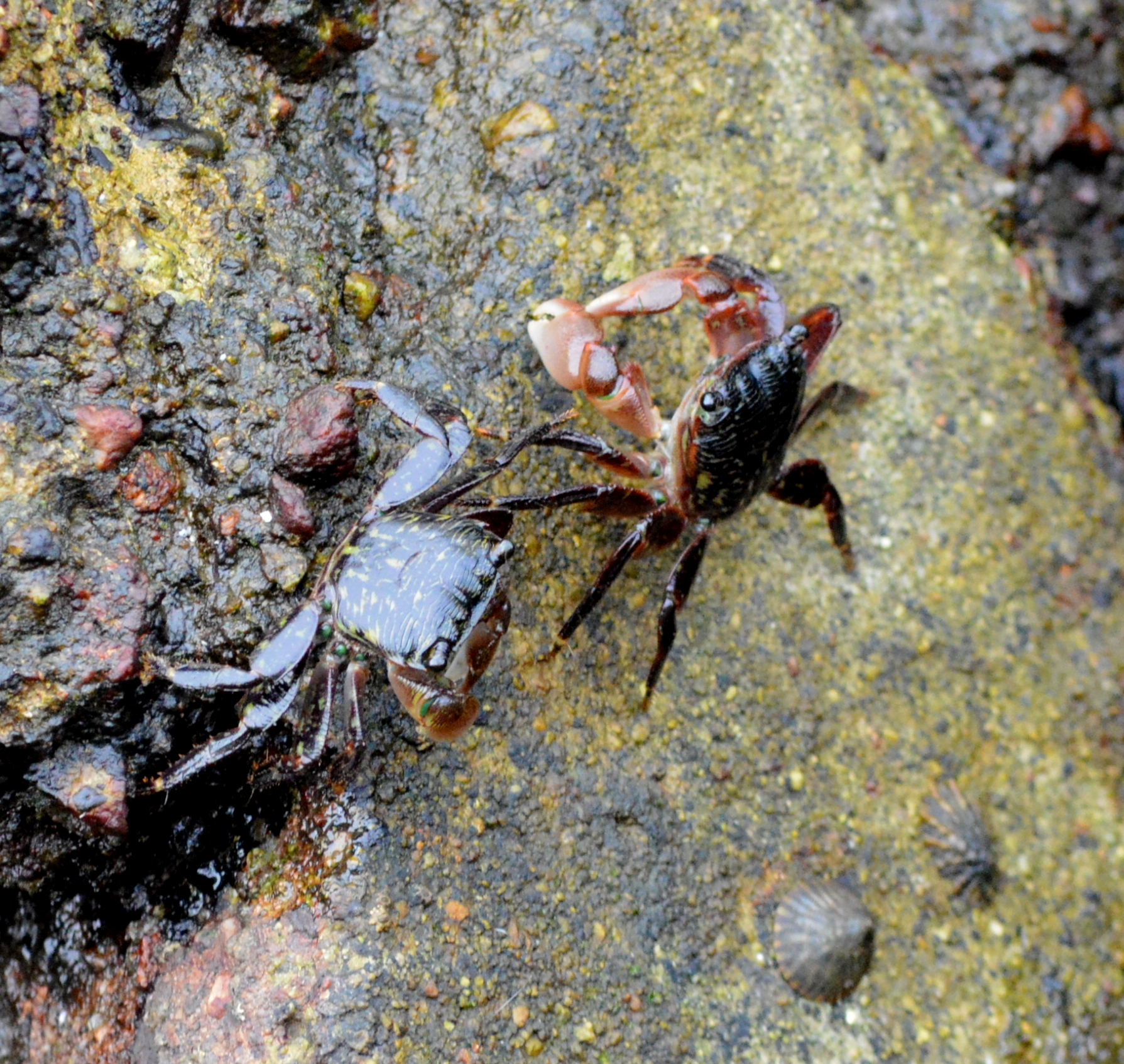 Two striped shore crabs (Pachygrapsus crassipes) and two small shells on a rock at Redondo Beach's King Harbor Marina & Pier - California, U.S.A. The one on right is pushing the one on left to take over a lunch spot. If you zoom in, you can see that the crab on left is still holding a piece of food with its left claw.